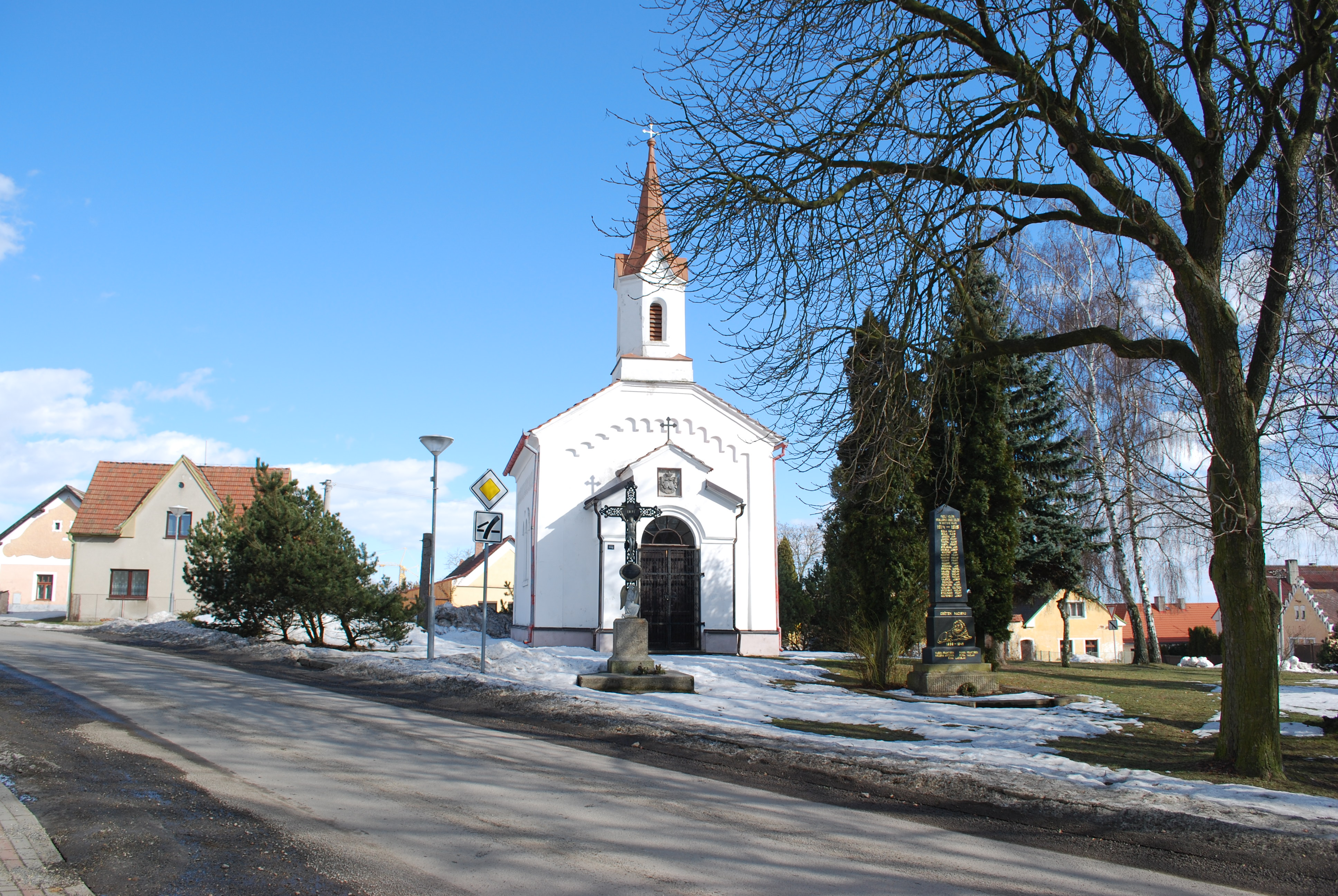 Želeč village in Tábor District, Czech Republic. Chapel This photograph was taken within the scope of the 'Czech Municipalities Photographs' grant.